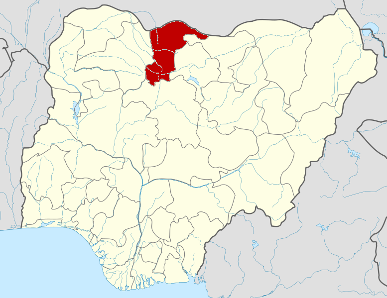 Map locator of Nigeria.